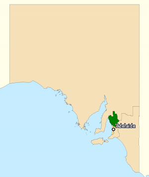 This image incorporates data that is: © Commonwealth of Australia (Australian Electoral Commission) 2009 Division of Wakefield 2010